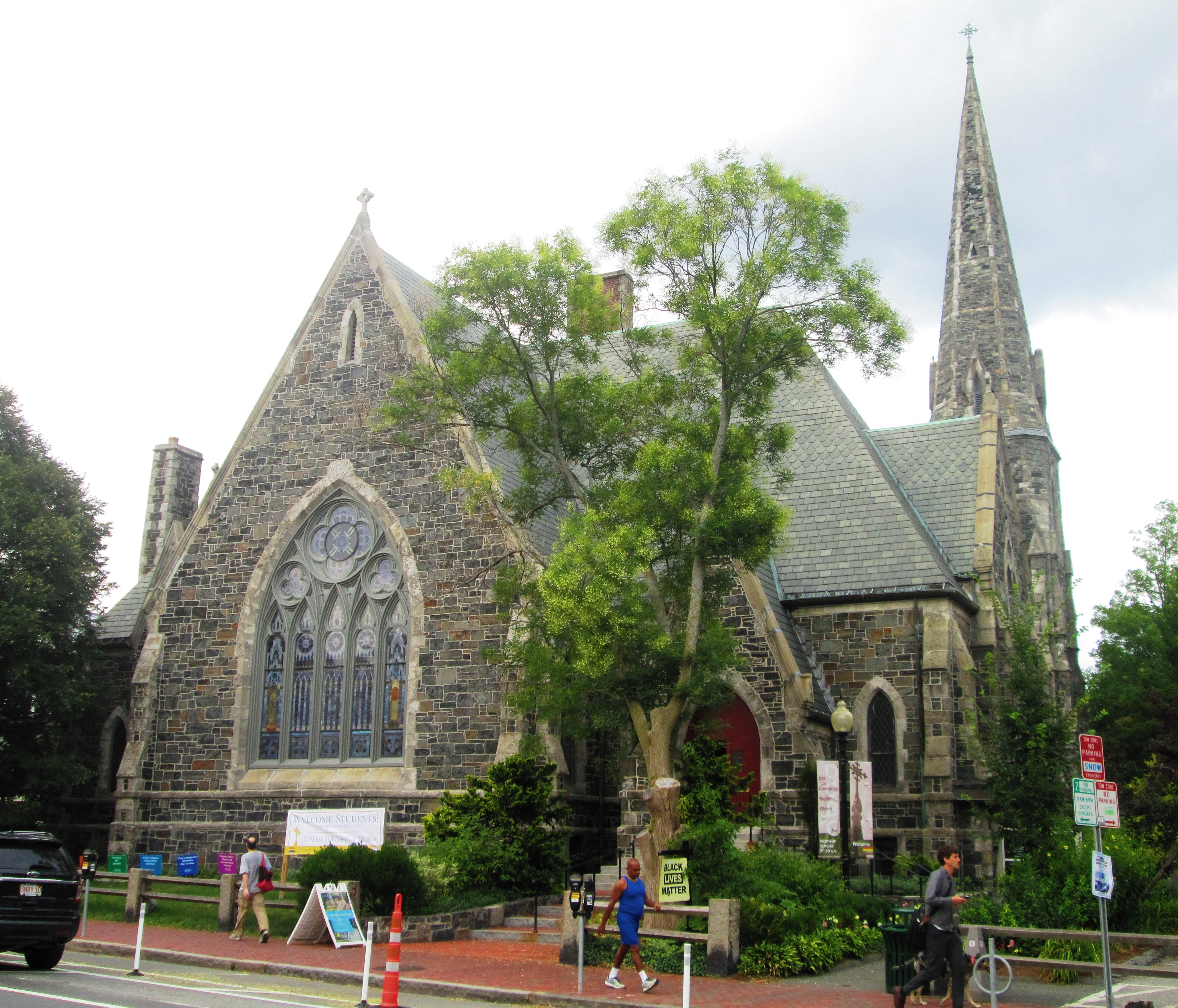 The Old Cambridge Baptist Church is an historic American Baptist church at 400 Harvard Street in Cambridge, Massachusetts. It was built in 1869 of local fieldstone and granite, and was designed by Alexander Rice Esty in the Gothic Revival style. The church was added to the National Register of Historic Places in 1982, and is a contributing property to the Harvard Square Historic District.